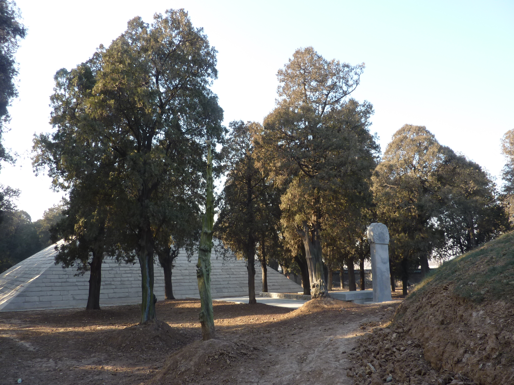 Shaohao Tomb site, east of Qufu. From the south to the north, includes a gate. a temple, a stone-faced pyramid, and an earth tumulus with the stele that says "Shaohao Ling" (Shaohao's Tomb) in front of it.